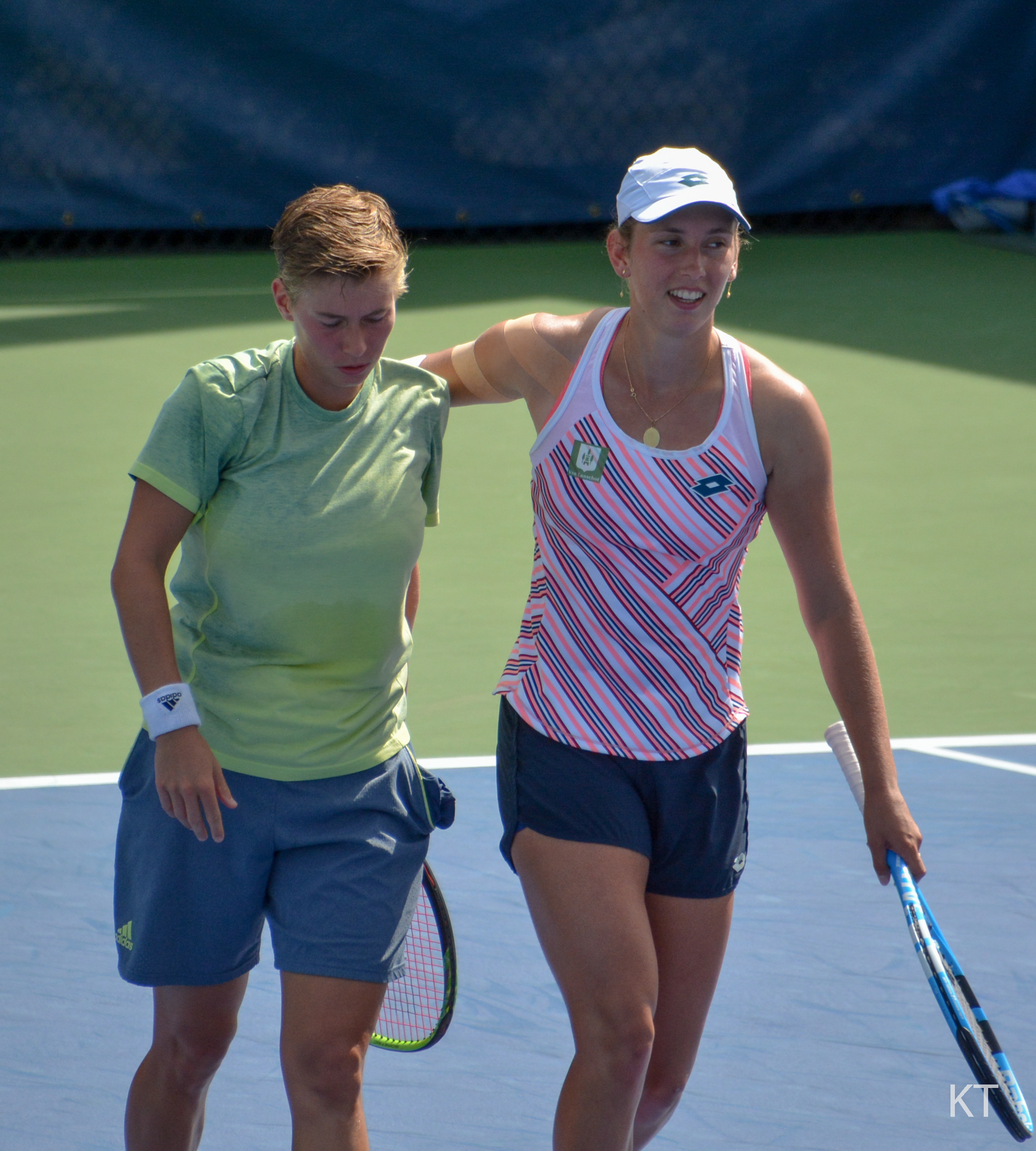 Day 4 of US Open 2018.